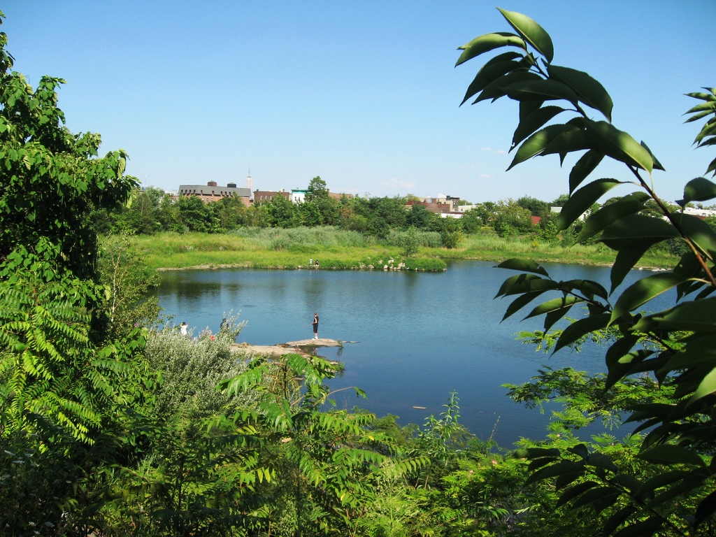 Jersey City Reservoir #3, "The Hidden Jewel" of Jersey City